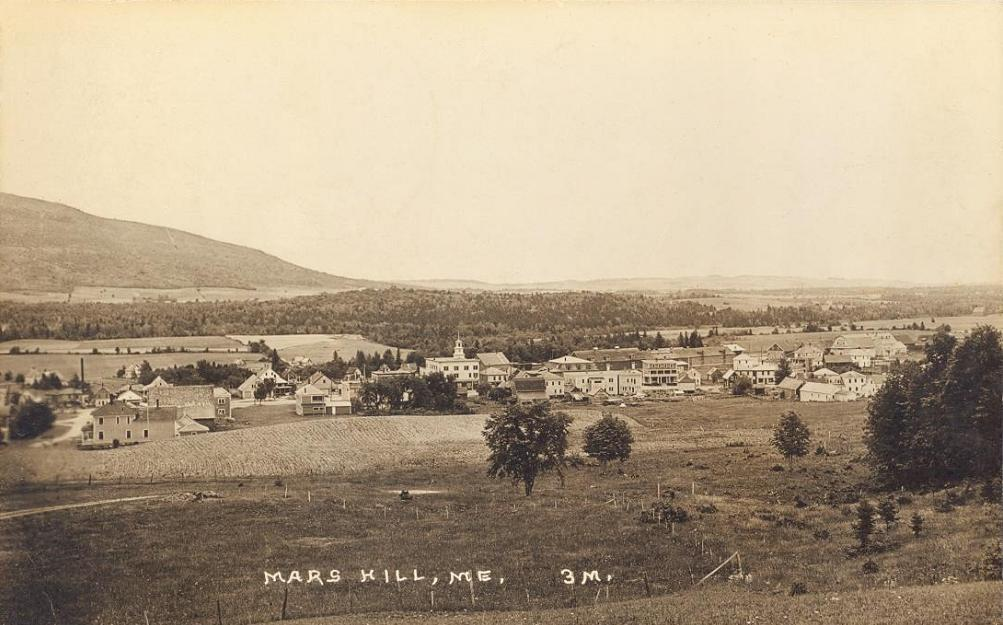 General view of Mars Hill, Maine